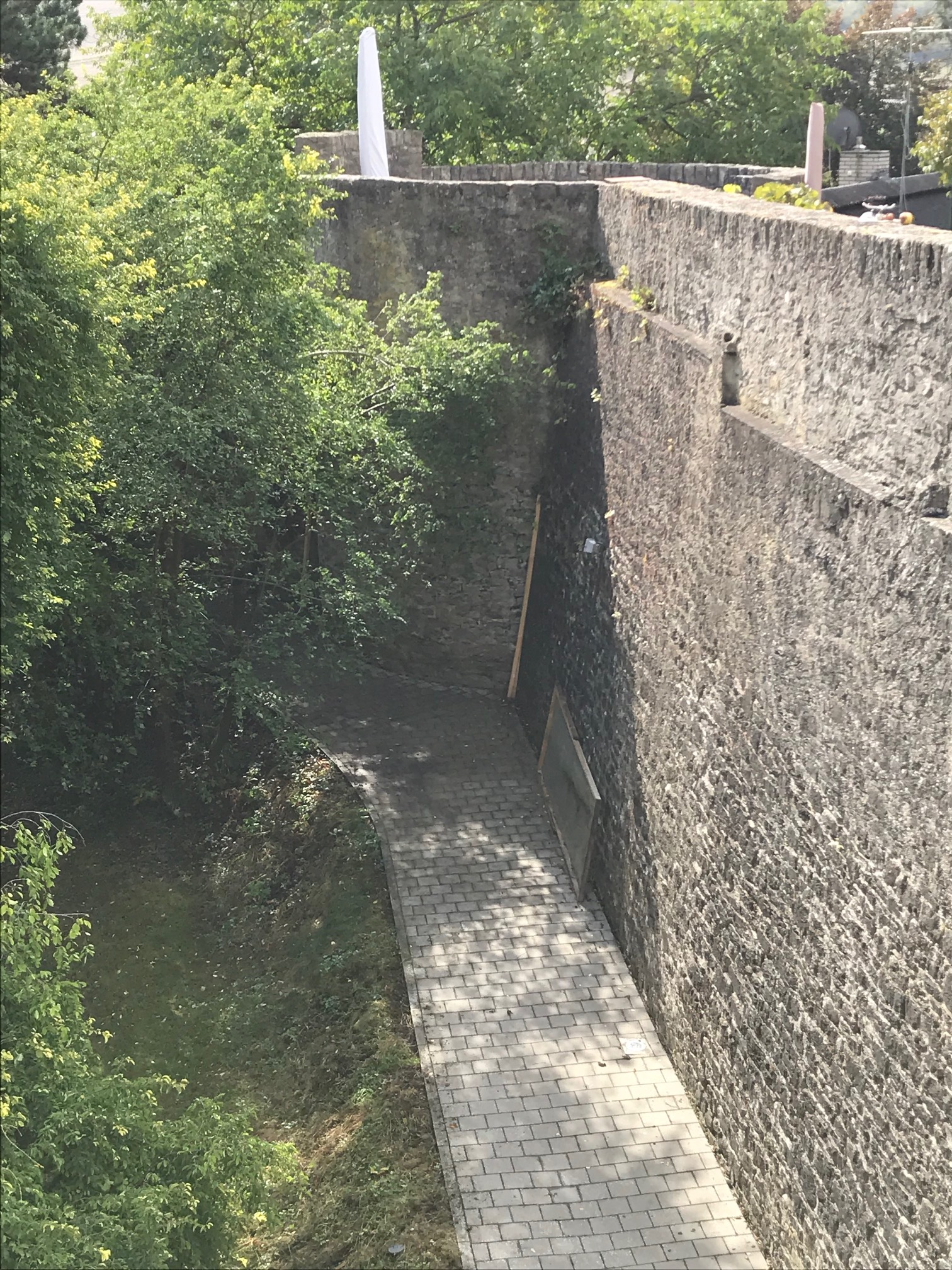 Wehrturm von Burg Arnstein (Main-Spessart)